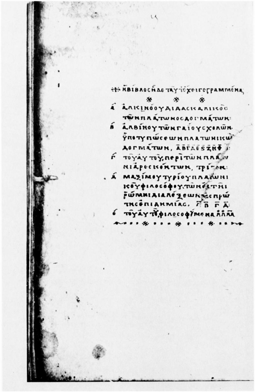 9th century manuscript Parisinus graecus 1962, fol. 146v with text by Alcinous.